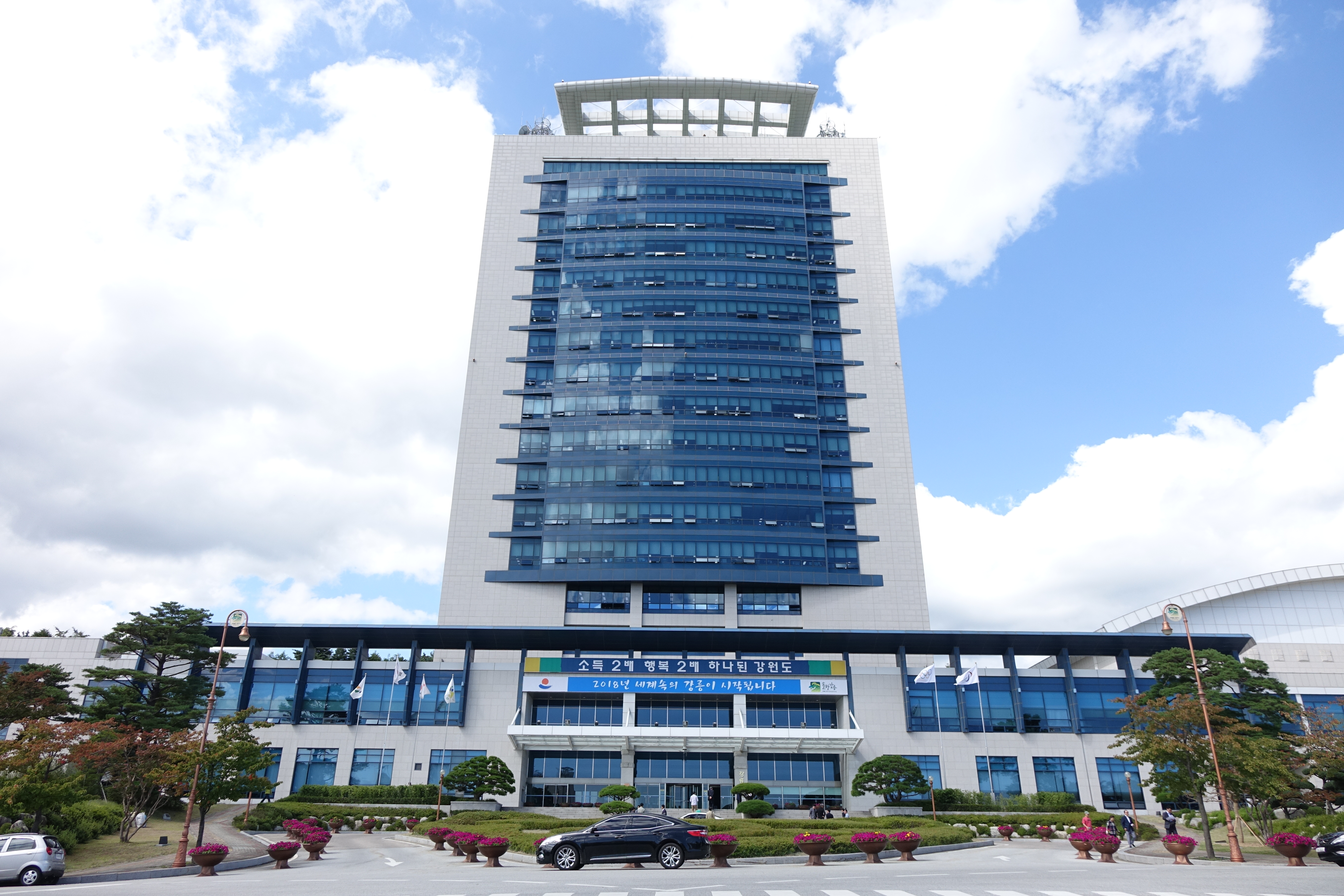 본 저작물을 'CC0 1.0 보편적 퍼블릭 도메인 기증' 저작권으로 배포합니다. 사진에 대해 궁금하신 점이나 원본 파일(ARW)을 원하시는 분은 여기로 연락주세요. 감사합니다. 2015년 10월 4일. 최광모.